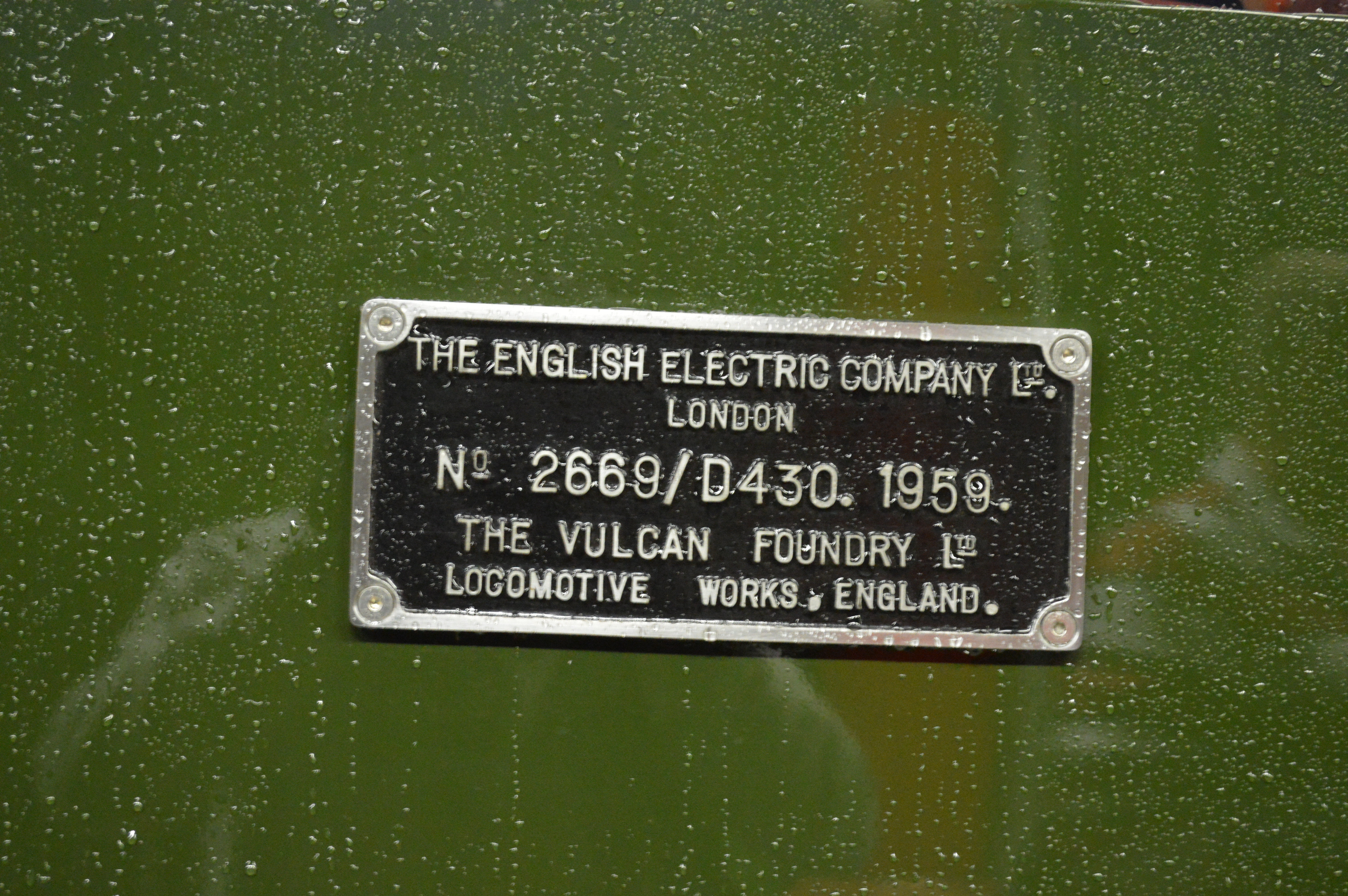 One of the hundred and eighty members of the class to be built at the Vulcan Foundry in Newton-le-Willows. Of the two hundred built just twenty were constructed at Robert Stephenson and Hawthorns in Darlington.